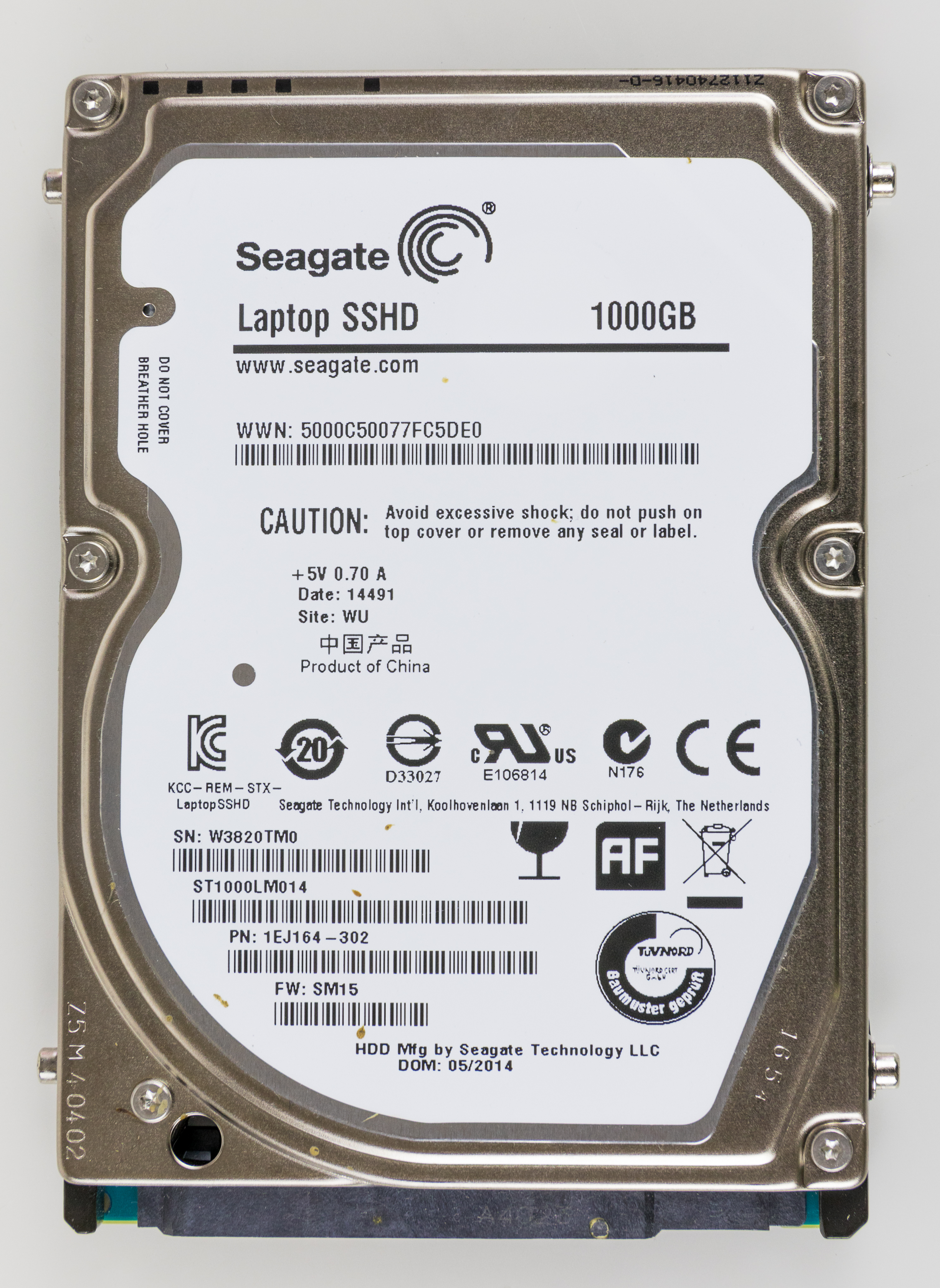 Seagate ST1000LM014 - Laptop SSHD hard disk, 2.5", 1000 GB